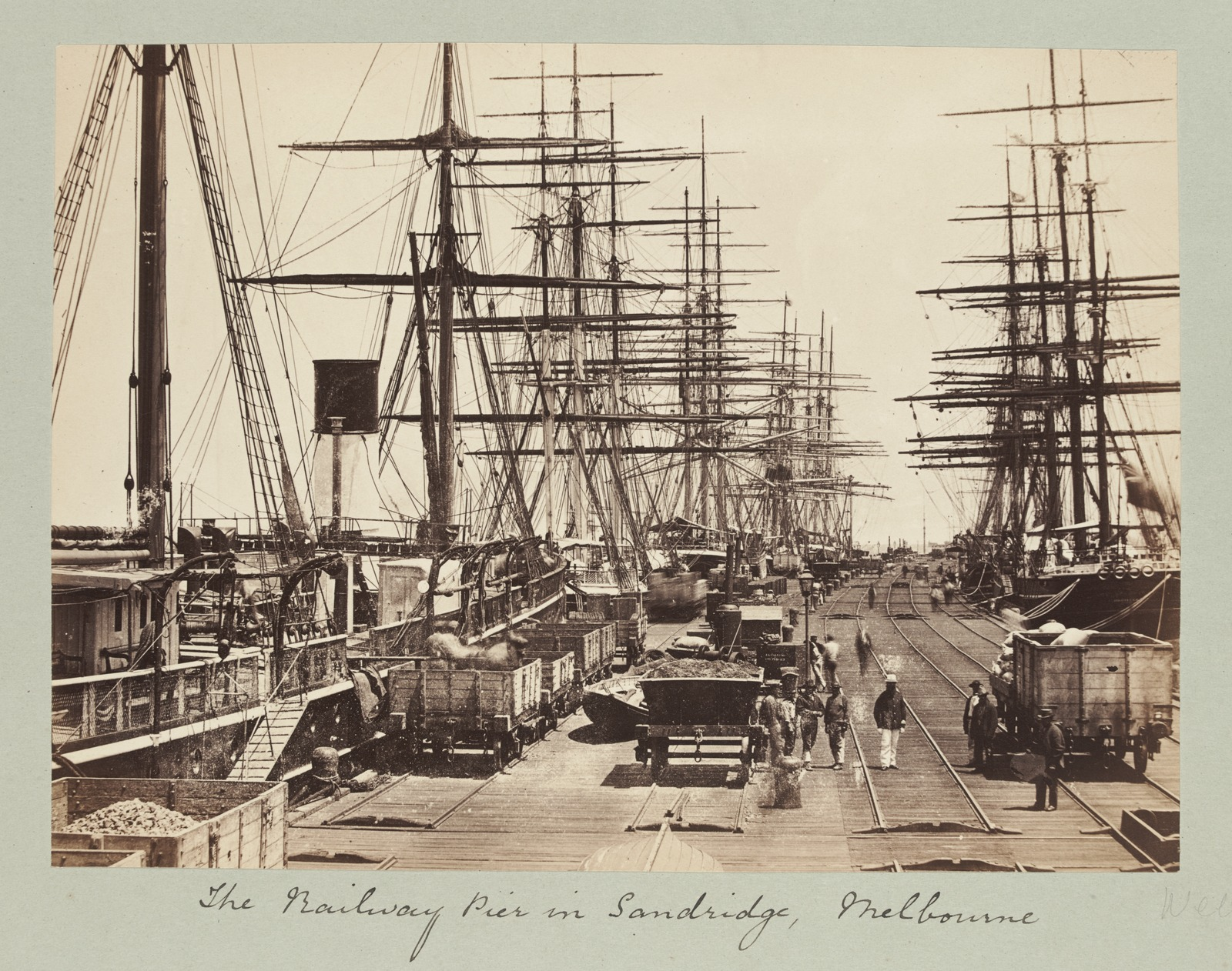 The Railway Pier in Sandridge, 1880?, Melbourne State Library Victoria (Australia) H29693/1 Attributed to Charles Nettleton (1826-1902), photographer. Albumen silver, 14.2 x 19.4 cm.